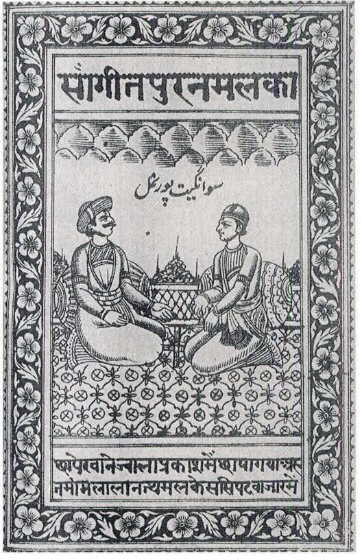 Cover page for the book Sangeet Puranmal Ka(lit. The Music of Puranmal) by Ramlal. The book was published in 1879 from Meerut, India. The text reads (roughly): Sangeet Puranmal Ka Printed in the Jwala Prakash printhouse, in Lala Sasipad Bazaar